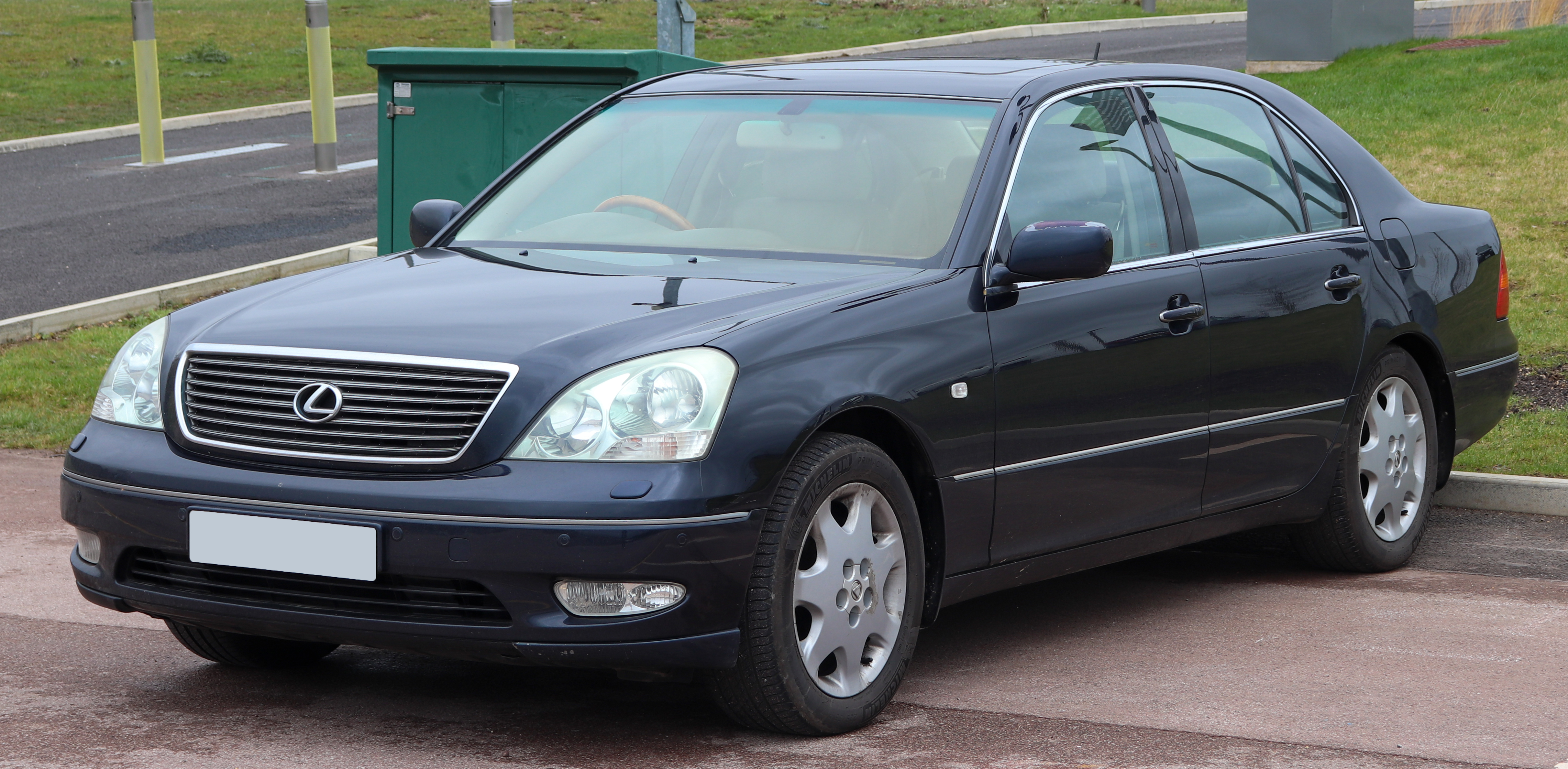 2003 Lexus LS430 Automatic 4.3 Front Taken at the British Motor Museum, Gaydon